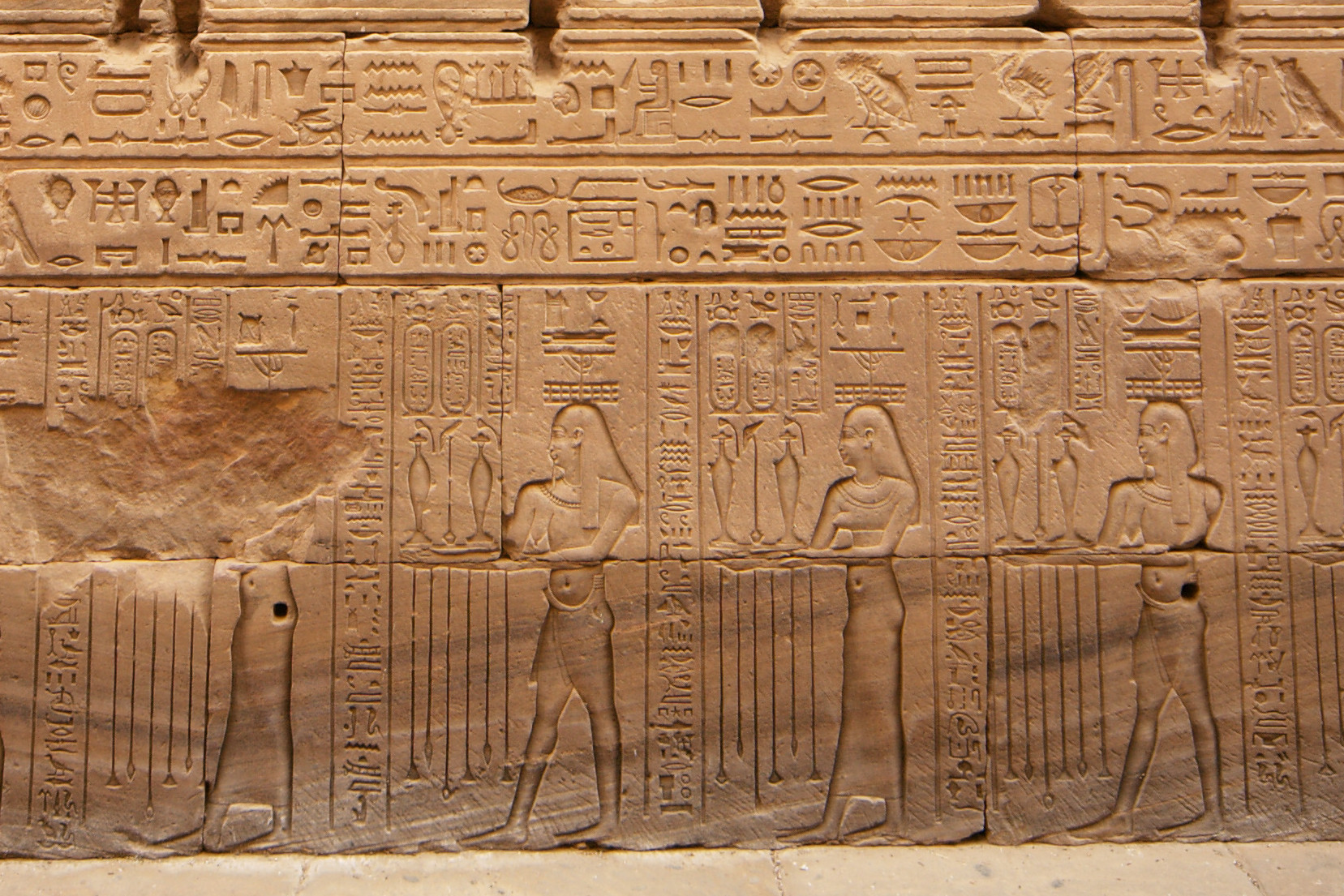 Reliefs of Ptolemy VIII in Edfu Temple.